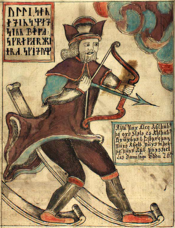 An illustration of the god Ullr, from an Icelandic 18th century manuscript.